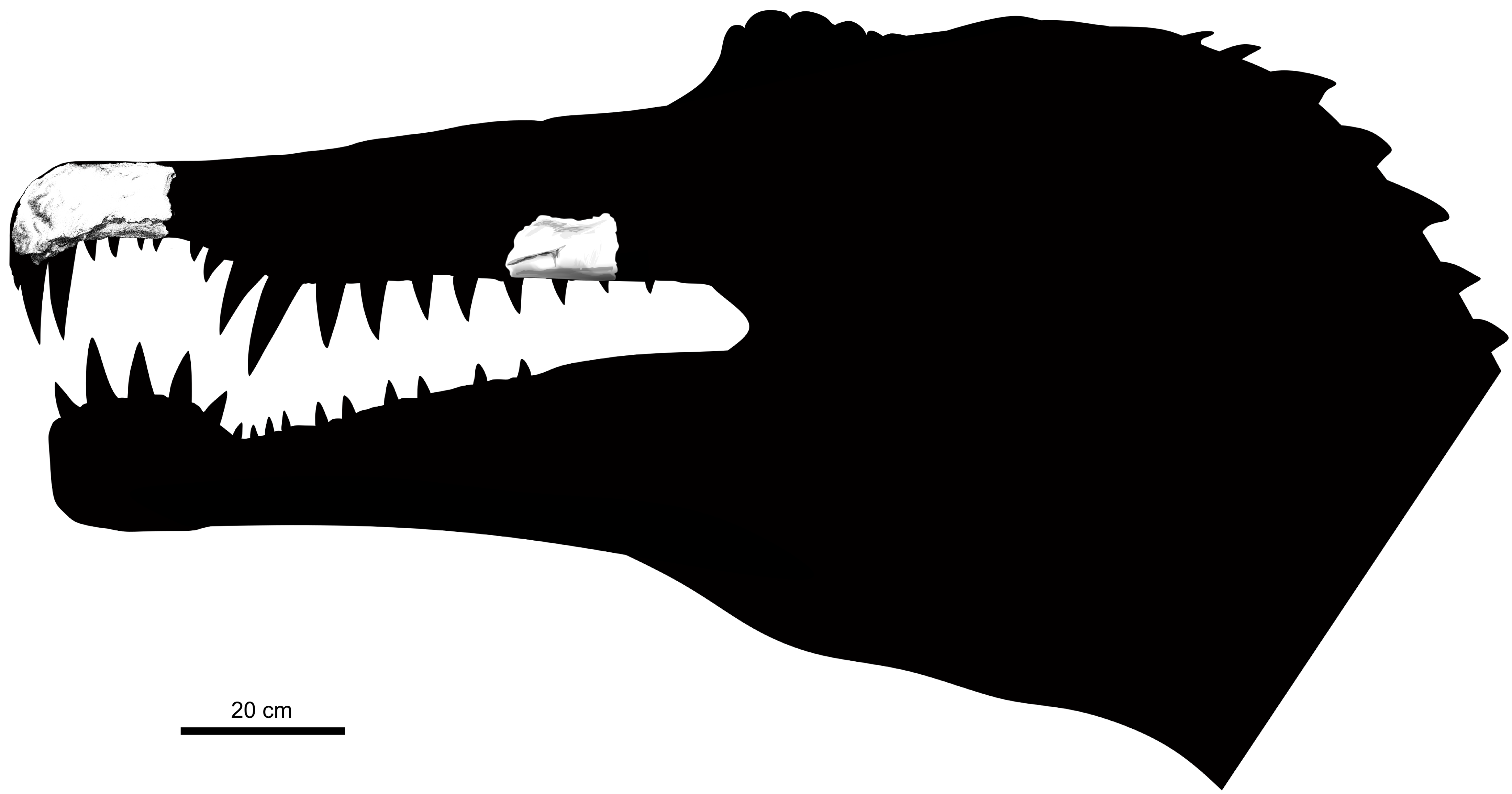 Specimen MN 6117-V, the holotype of Oxalaia quilombensis. Position of MN 6119-V (left maxilla fragment) based on skull diagram from Kellner et al.[1]